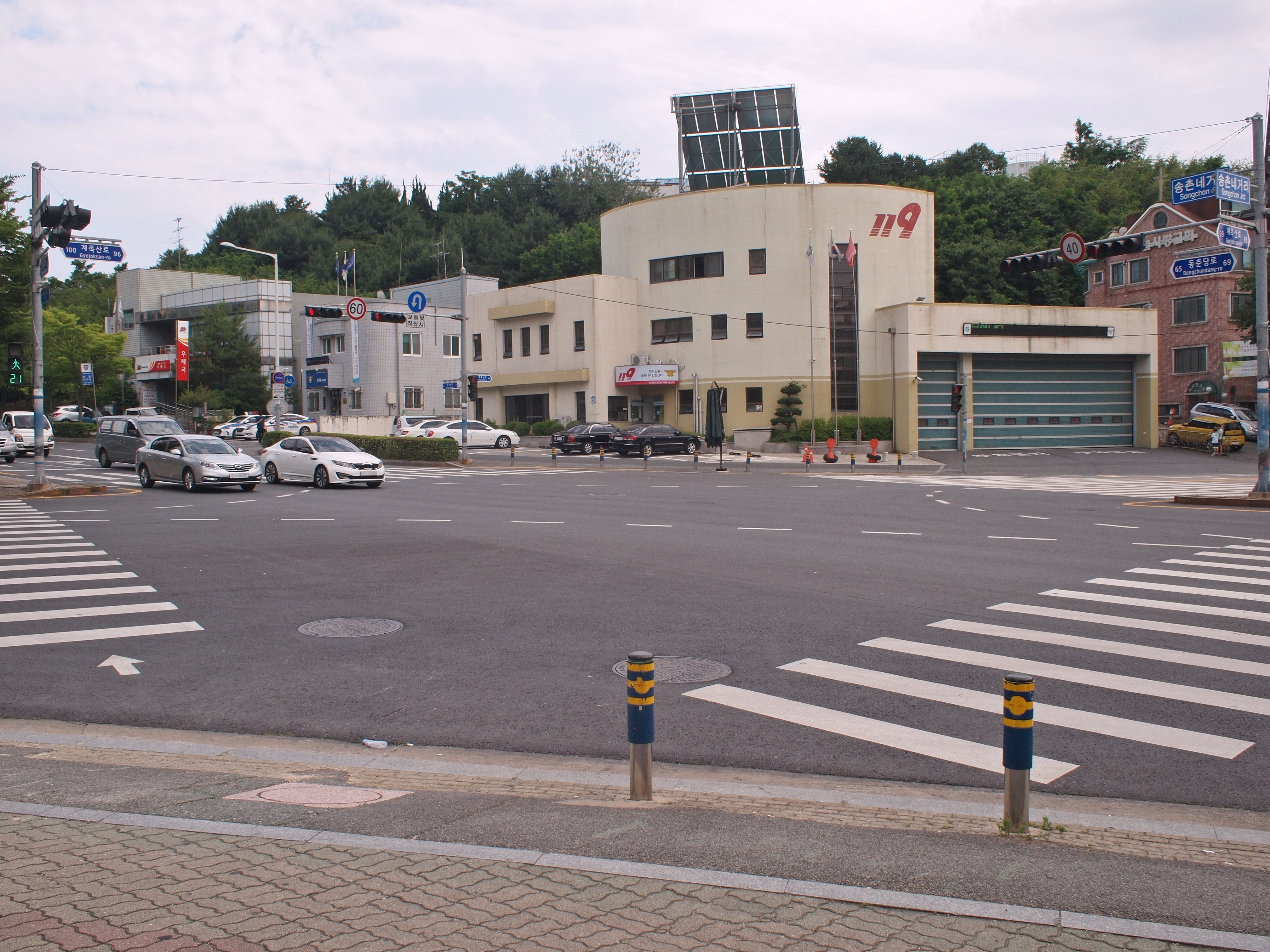 Intersection in front of Dongchundang Park. (Daejeon Songchon-dong Postoffice, Songchon Police Substation, Songchon 119 Safety center)